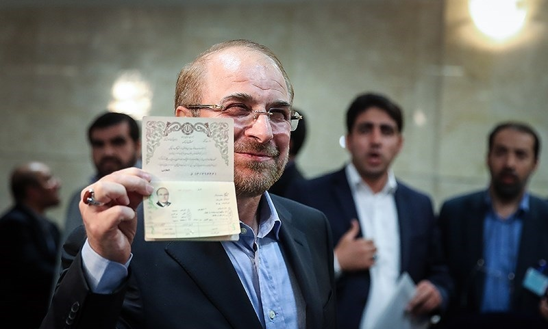 Tehran Mayor Mohammad-Bagher Ghalibaf registering for the 2017 presidential election at the Ministry of Interior